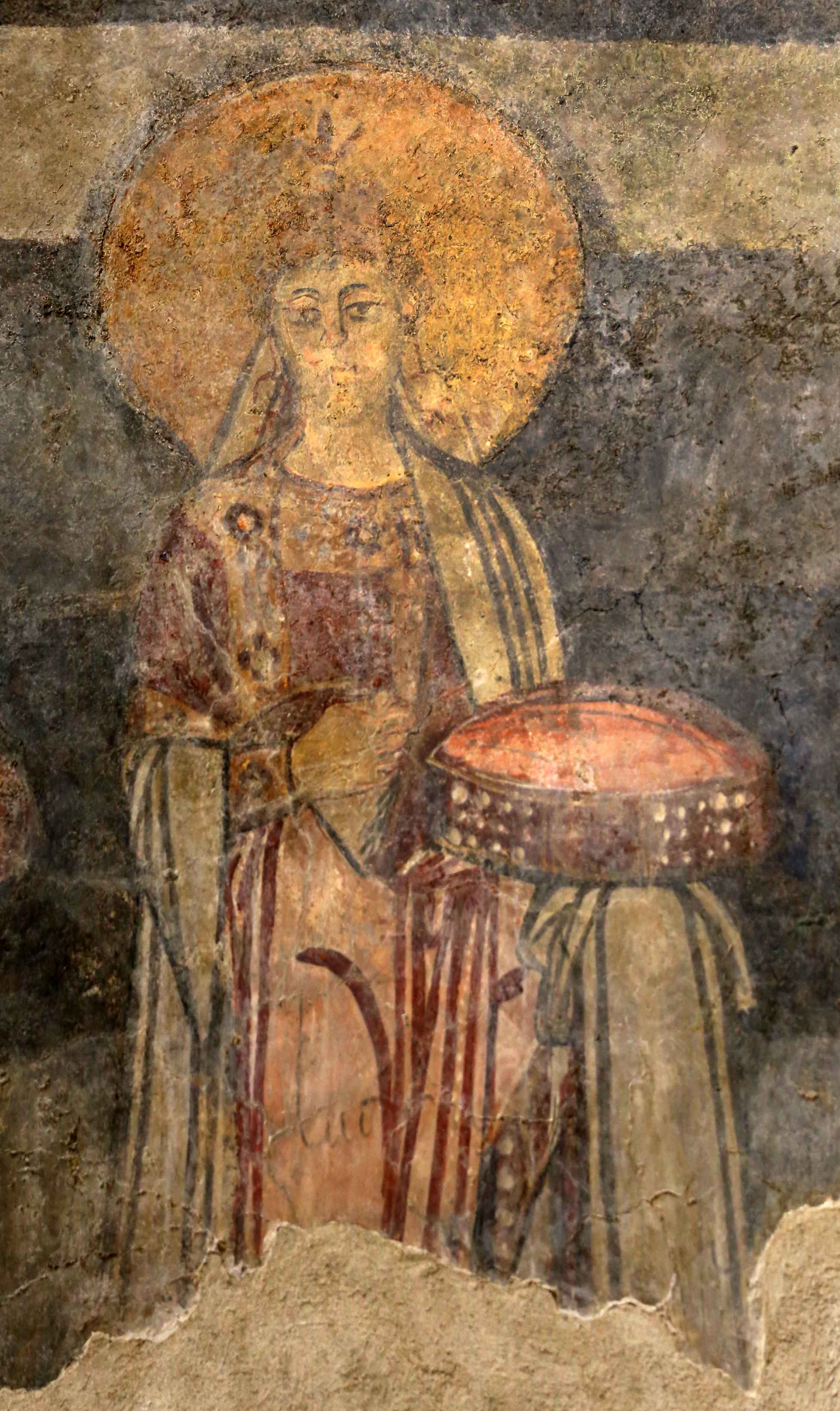 Epifanio Crypt